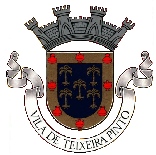 Coat of arms of the city of Canchungo (then Vila de Teixeira Pinto), Guinea-Bissau, during Portuguese rule (may be still in use). From the book of Almeida Langhans, "Armorial do Ultramar Português" 2 vols. 1966. Emerson